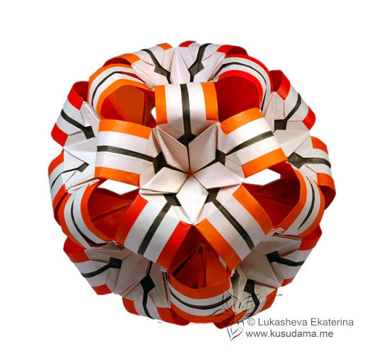 This is from Rafaelita long collection of Lukasheva Ekaterina kusudama. Kusudama name is Grafique.